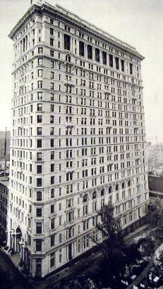 Empire Building, Broadway and Rector St., designed by Kimball and Thompson